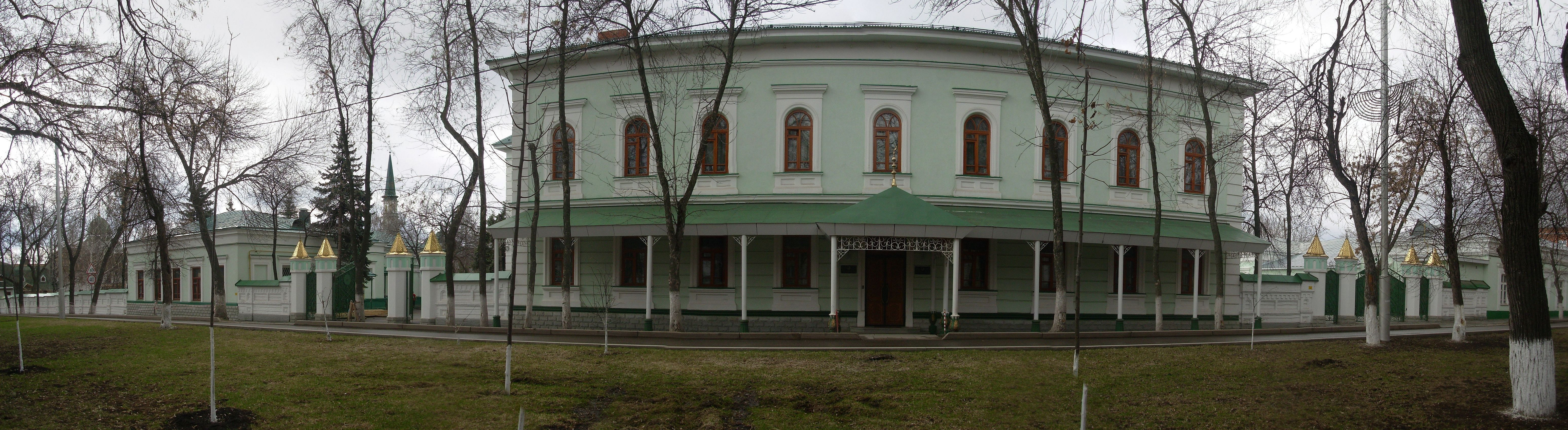 ЦДУМ в Уфе